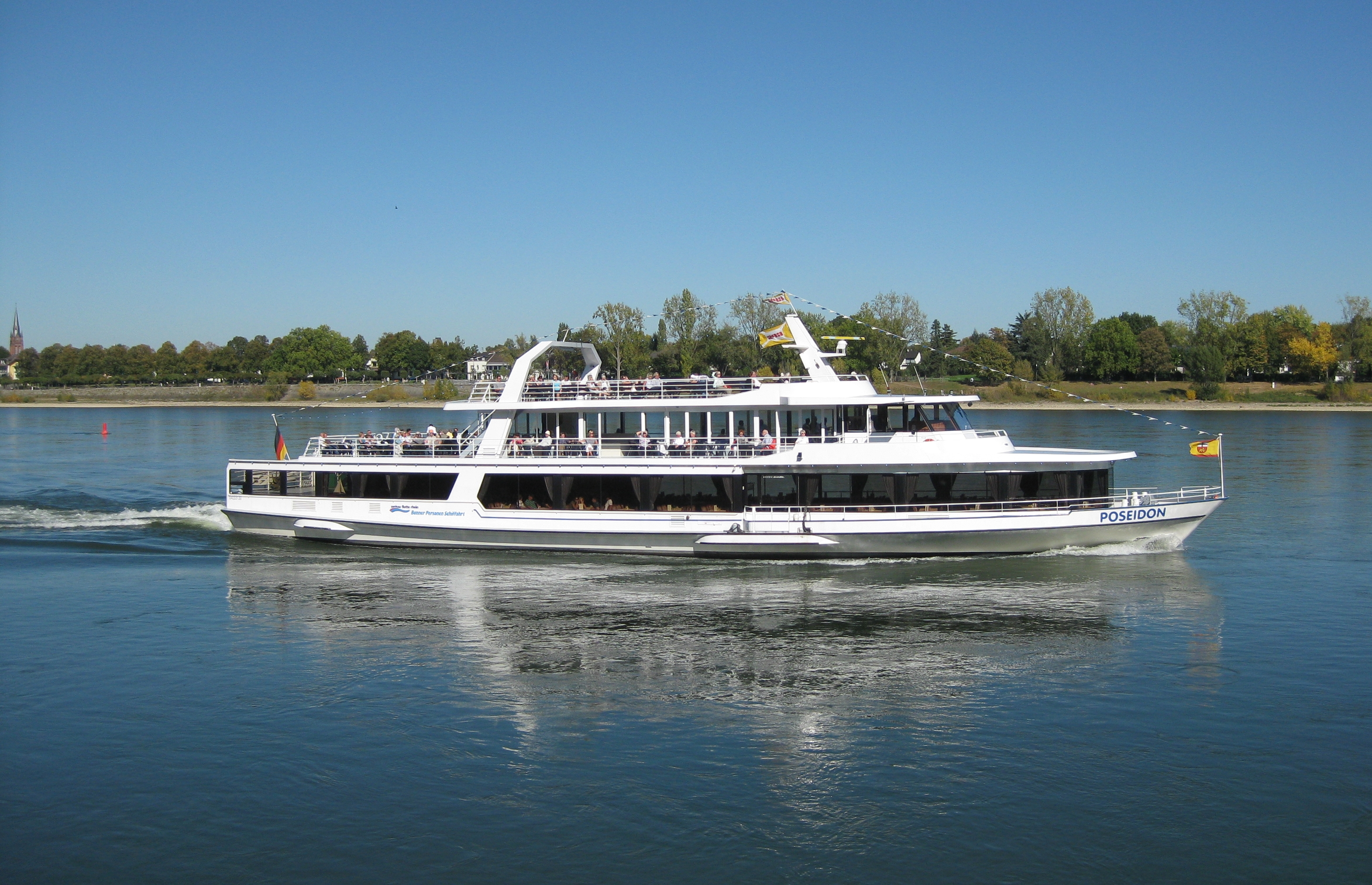 Bonn, Passenger ship "Poseidon" on the Rhine river (height Bonn-Beuel).